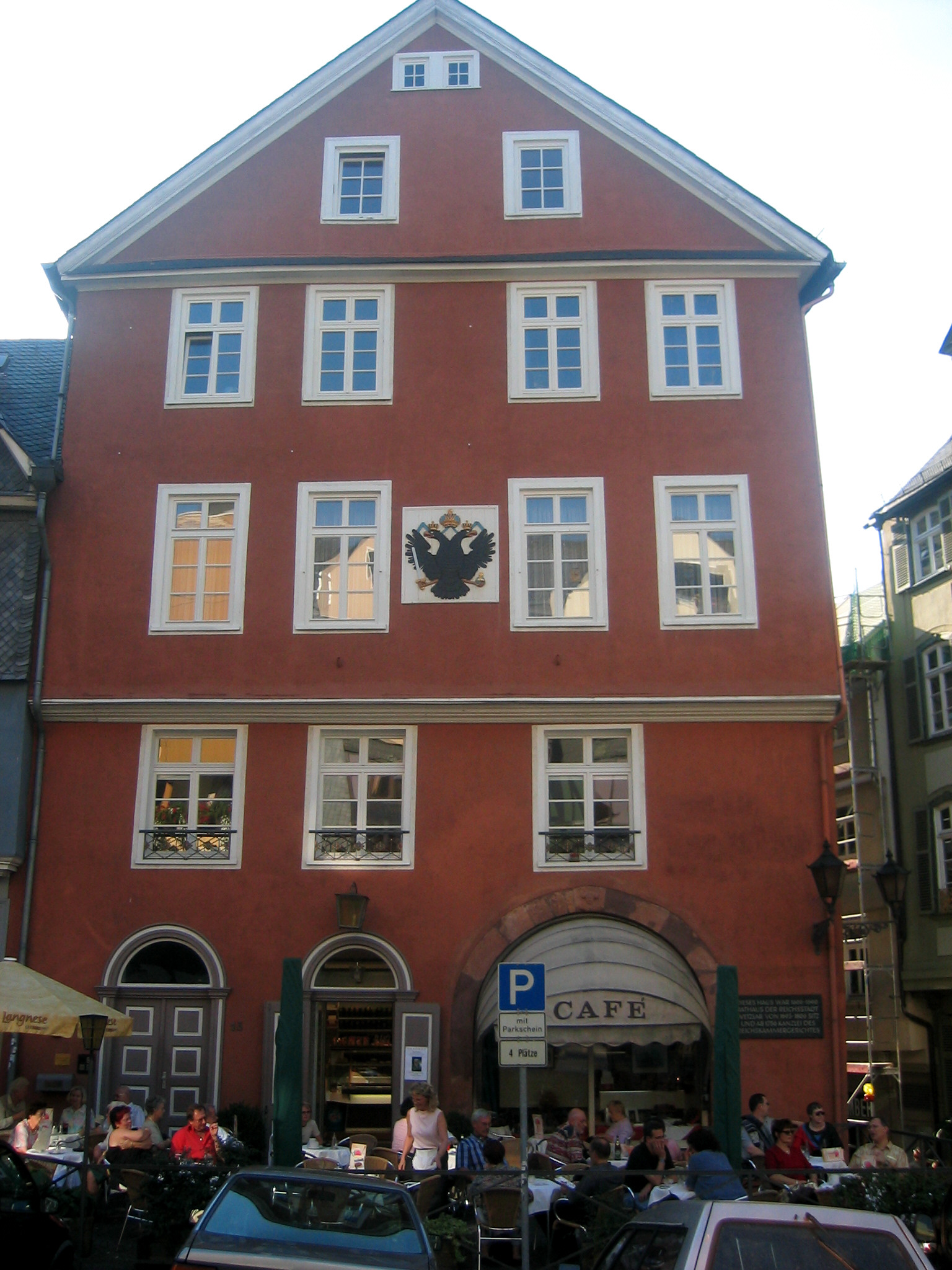 Wetzlar, Germany: former seat of the Reichskammergericht (Imperial Court of the Holy Roman Empire of German Nation)